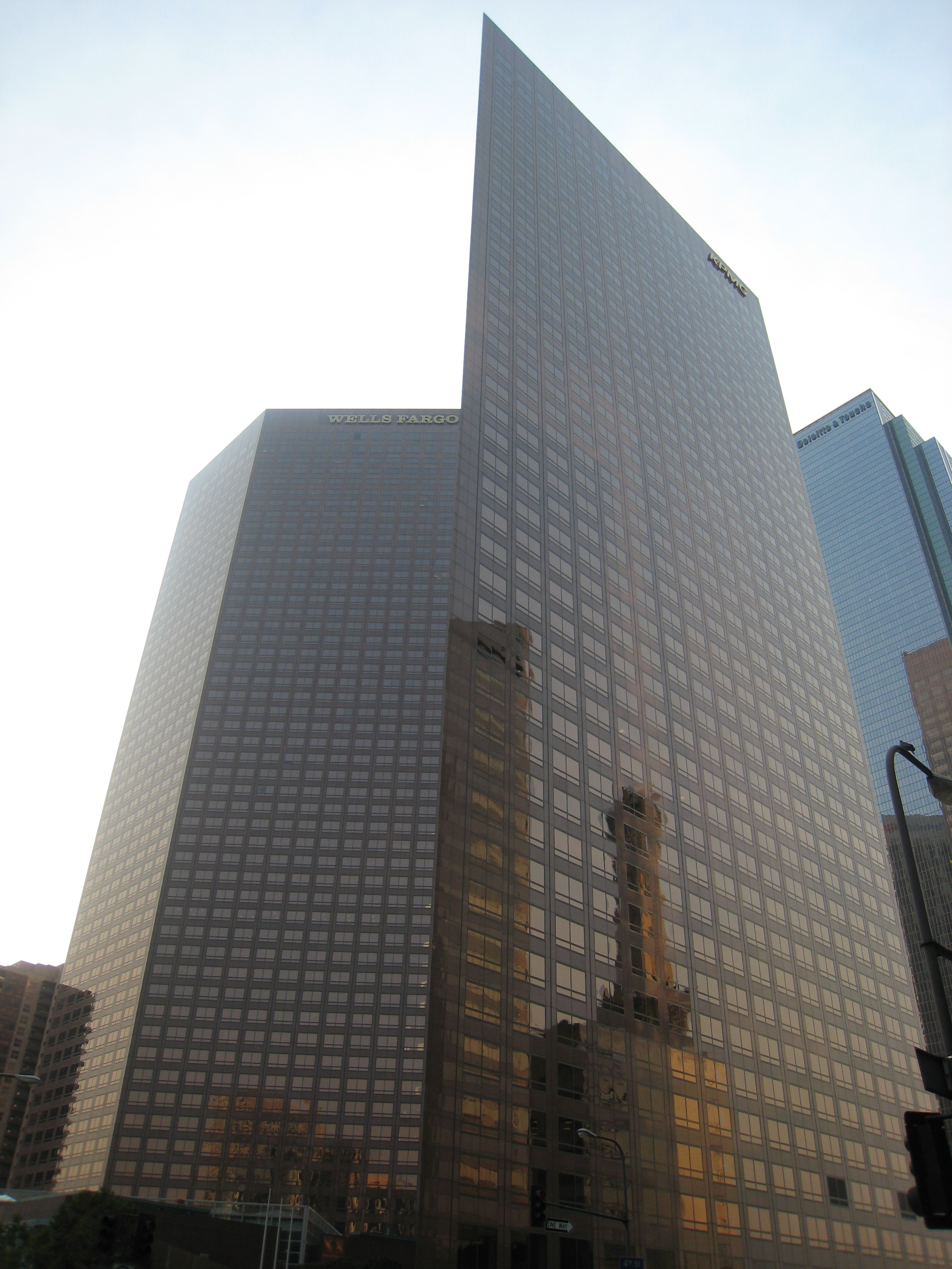 Wells Fargo Center in Los Angeles, California